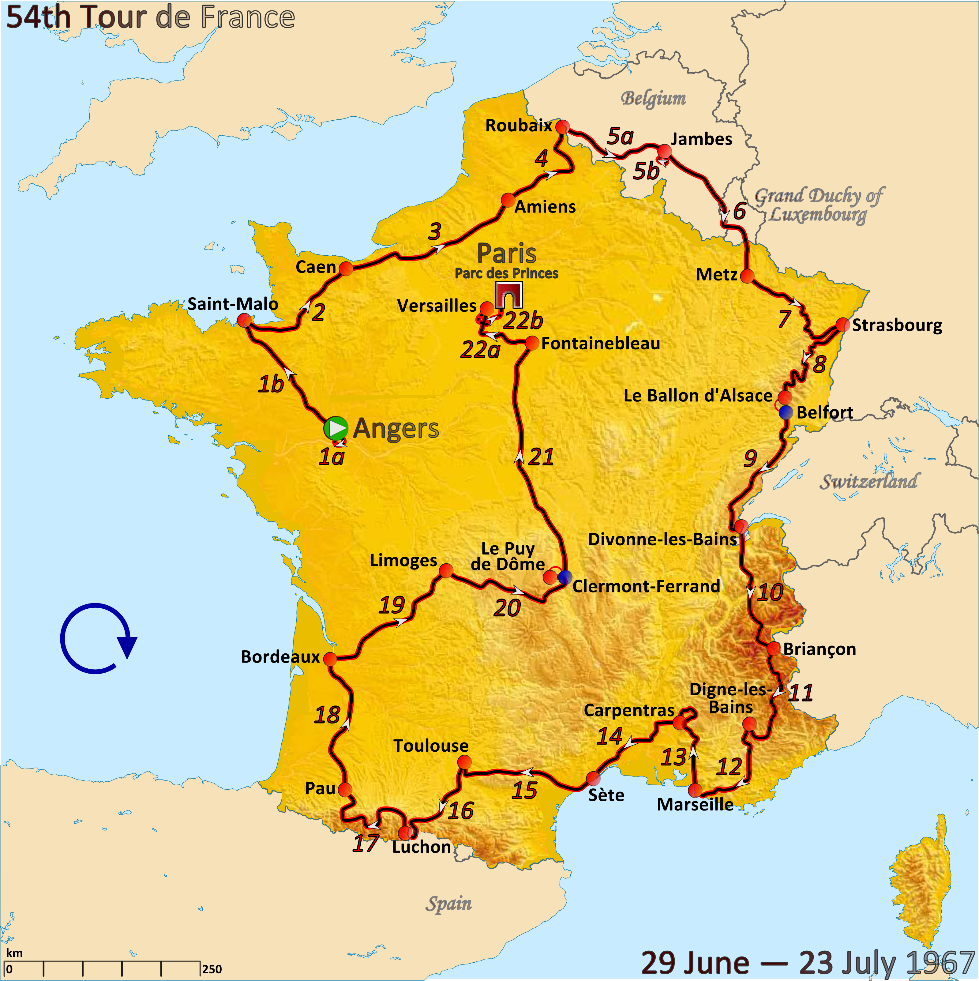 Map of the 1967 Tour de France created in Inkscape using accurate stage maps from touratlas.nl.